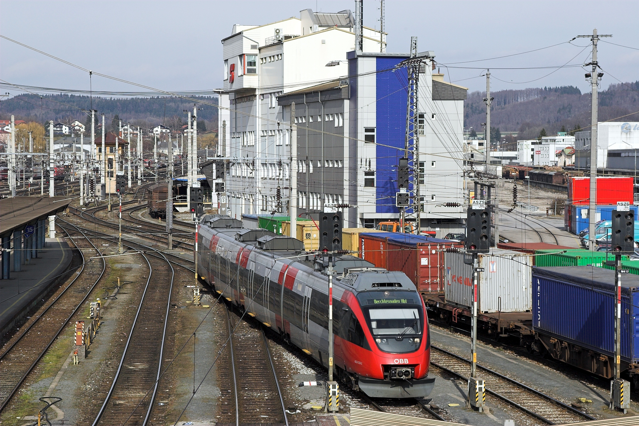 The new signal tower of Salzburg Hauptbahnhof, a class 4024 EMU to Berchtesgaden is passing